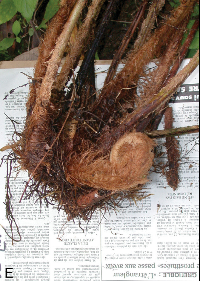 Polystichum kenwoodii, rhizome and stipe bases (Hiva Oa, Wood 10232)